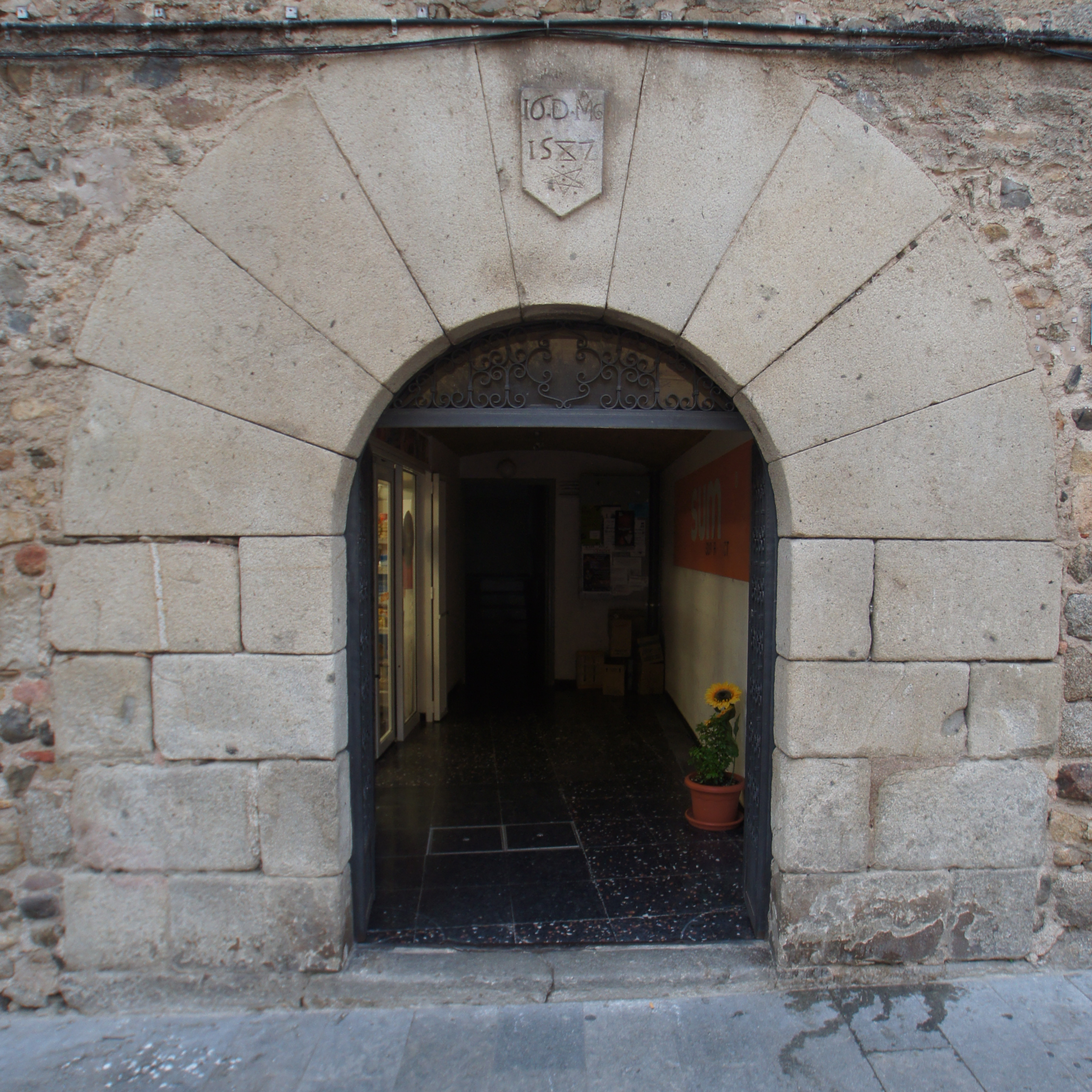 Calonge, Catalonia: Front door from the Can Savalls